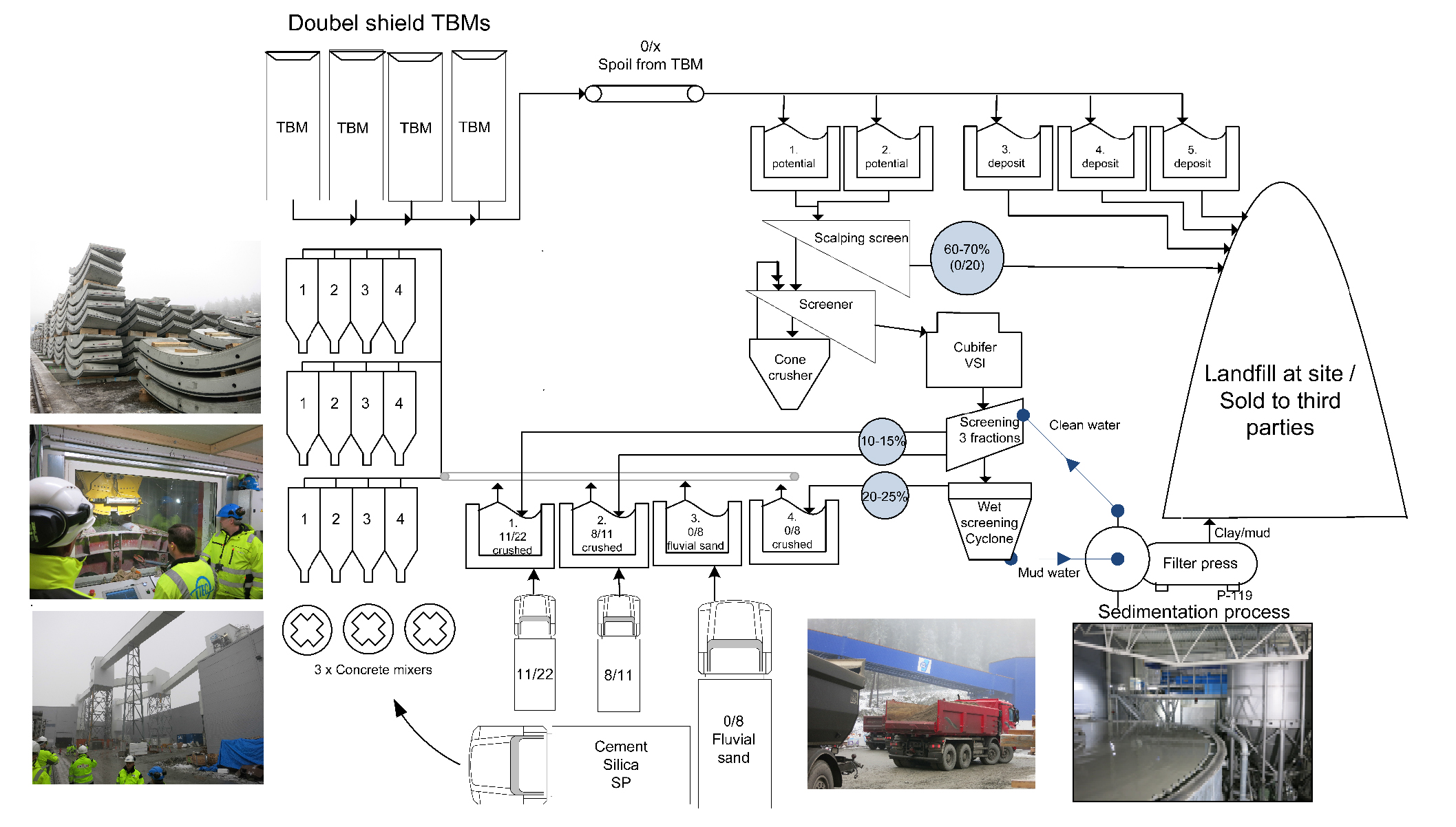 Flow diagram of tunnel rock recycling